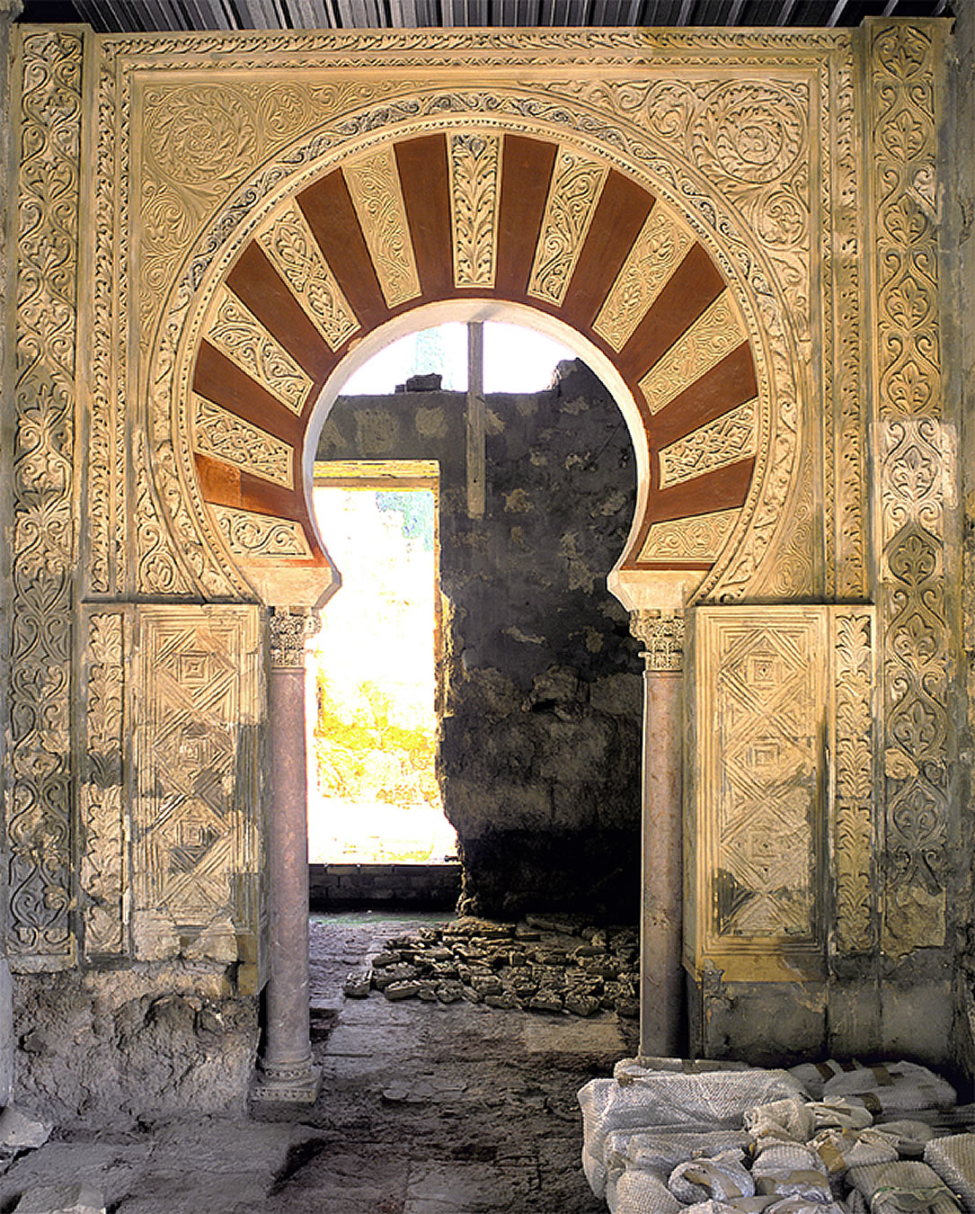 Casa Real